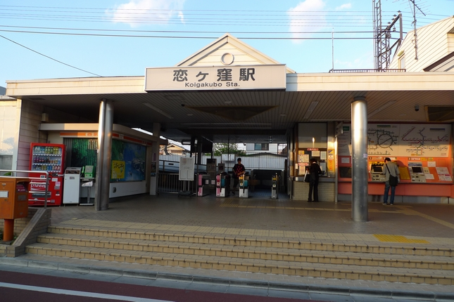 The entrance of Koigakubo Station on the Seibu Kokubunji Line in Kokubunji, Tokyo